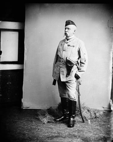 Major-General Sir Frederick D. Middleton (b. Nov. 2, 1825 - d. Jan. 25, 1898) Sir Frederick Middleton, who led the successful suppression of the Riel Rebellion and who for a time billetted in the Queen's Hotel in Qu'Appelle.